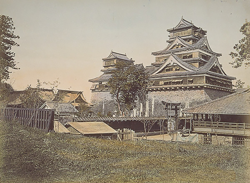 Keep of the Kumamoto Castle.